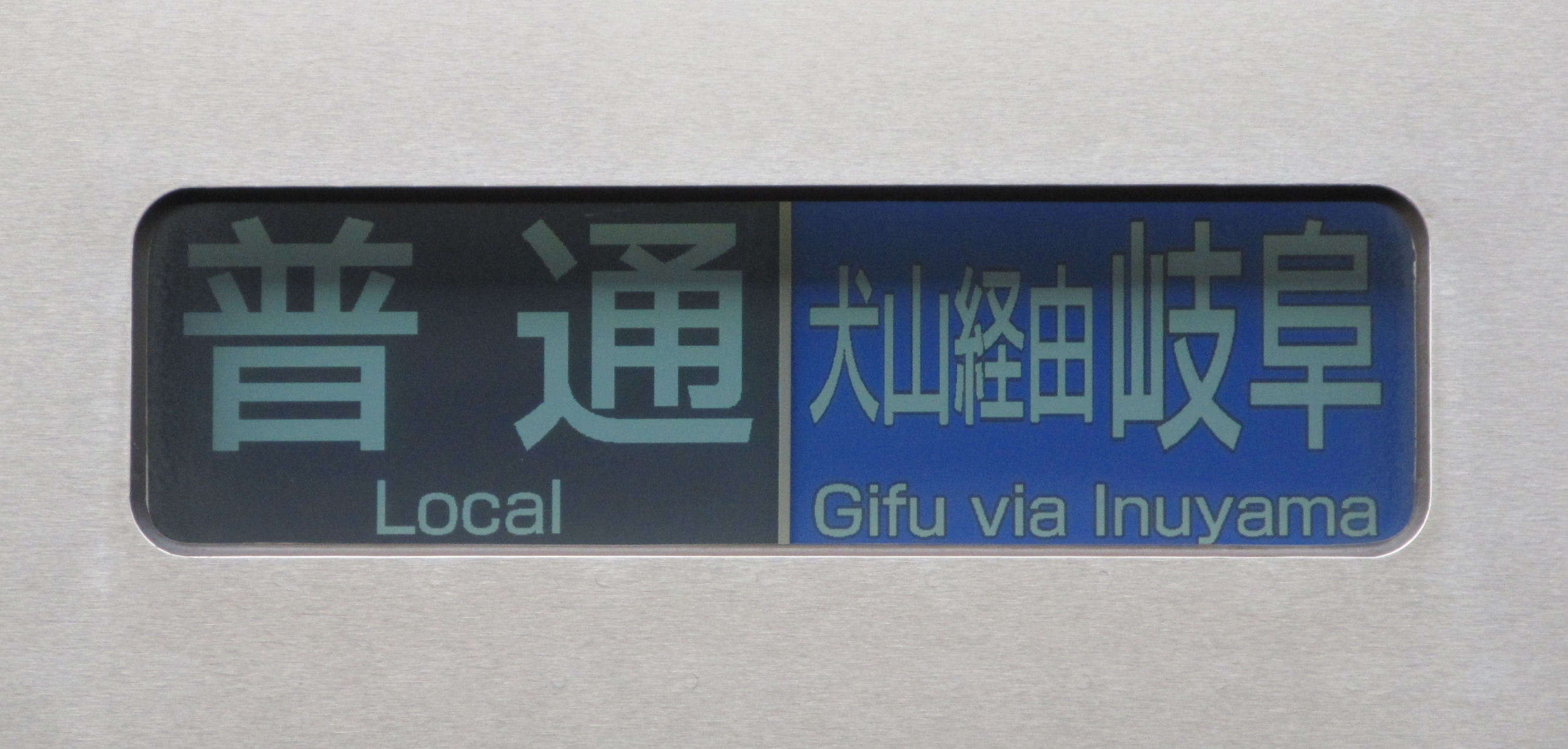 Reflection Type of Train Destination Board of Nagoya Railroad Series 3300. Local Train bound for Gifu via Inuyama.